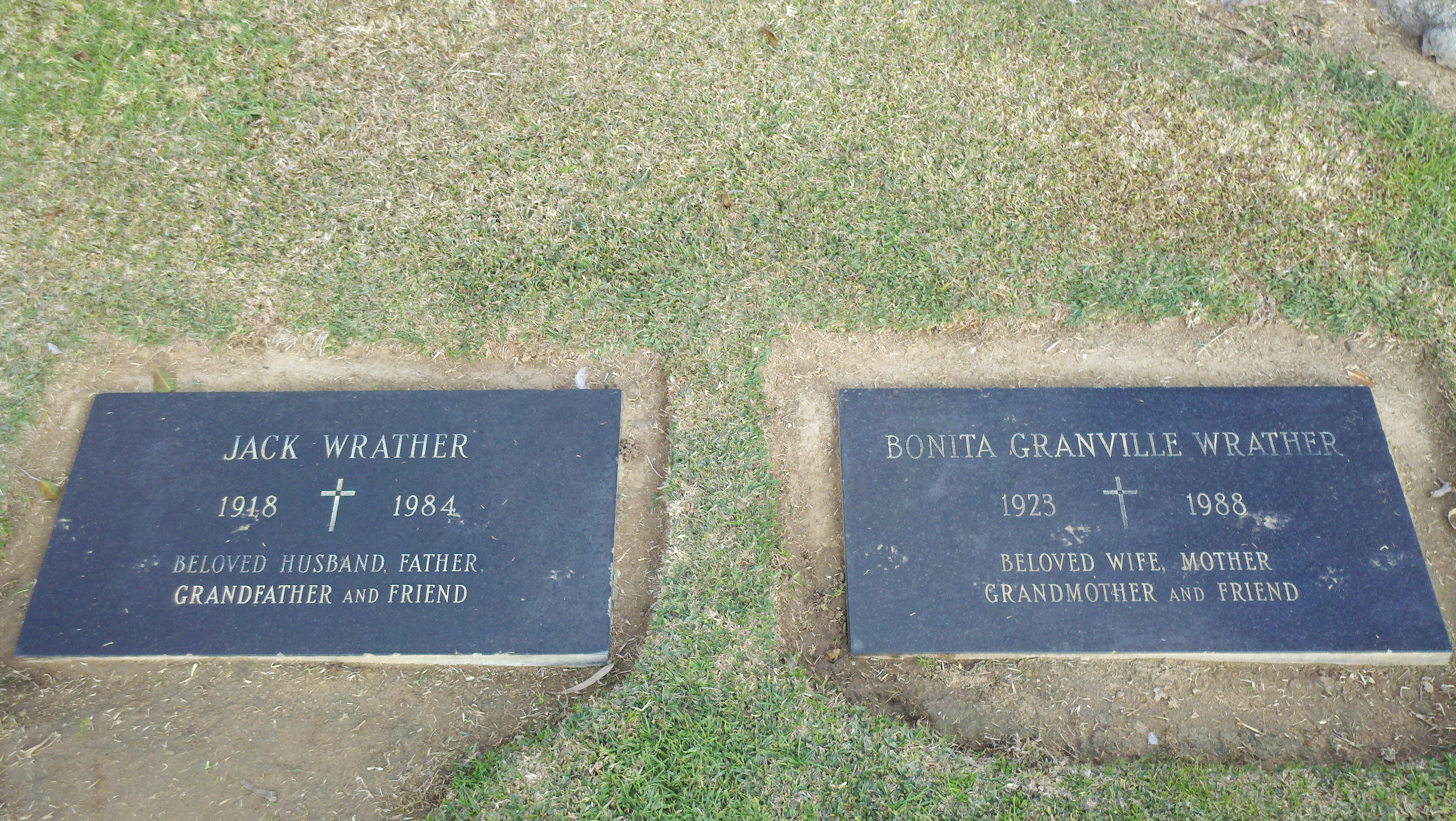 Graves of television producer Jack Wrather and his wife, actress Bonita Wrather (née Granville), at Holy Cross Cemetery in Culver City, California (grotto, lot 196, grave 12). John Devereaux "Jack" Wrather, Jr. was born May 24, 1918 and was a petroleum millionaire and television producer, later investing in broadcast stations and resort properties. He produced The Lone Ranger, Sergeant Preston of the Yukon, and Lassie television series in the 1950s, financed and owned the Disneyland Hotel in Anaheim, California, and owned several other hotels and resorts. Bonita Granville was born February 2, 1923 in Chicago, Illinois. She was nominated for an Academy Award for Best Supporting Actress for her role in the 1936 film These Three, played the title character in four Nancy Drew films from 1938–39, and has a star on the Hollywood Walk of Fame. Wrather produced some of Granville's films; The the two married in 1947 and had two children (in addtion two children from Jack's previous marriage to Mollie O'Daniel). Bonita worked as a producer for several films and television productions of The Lone Ranger and Lassie for her husband's Wrather Corporation. Jack Wrather died of cancer on November 12, 1984 in Santa Monica, California at age 66. Bonita died of lung cancer on October 11, 1988 in Santa Monica at age 65 and was buried next to Jack.